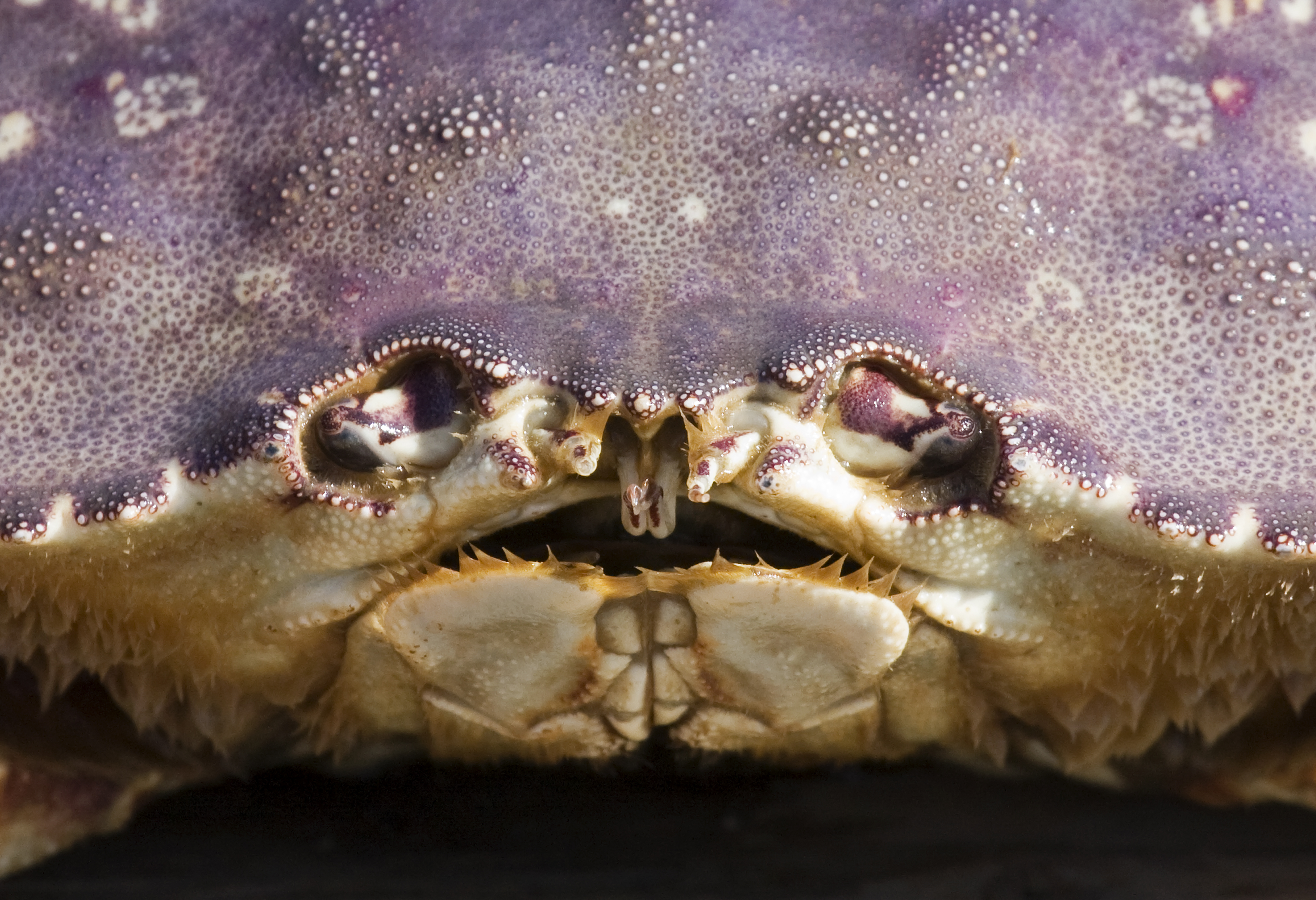 Portrait of a Dungeness crab (Cancer magister). 40D with 100-400L+25mm extension tube.